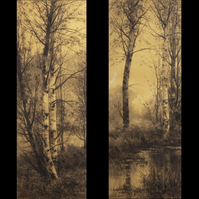 Turf along the River Shore.